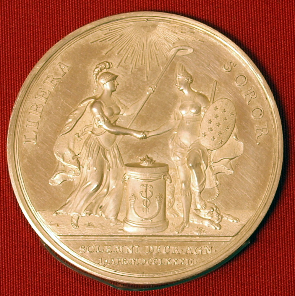 28.9-gram silver medallion, which Holtzhey struck upon the Netherlands' 19 April 1782 recognition of the United States. The face of the medal declares “Libera Soror,” or “A Free Sister,” and depicts Holland on the left as an armed woman and the United States on the right as a Native American woman. Holland uses a staff to place a Phrygian Cap upon America's head, while America holds a shield bearing thirteen stars and rests a foot upon the head of a chained lion. The reverse features the unicorn of the arms of England, prostrate with its horn broken against a rock cliff. The inscription reads, “Tyrannis virtute repulsa / sub Galliae auspiciis,” which translates to “Tyranny repelled by valor / under the auspices of France”.